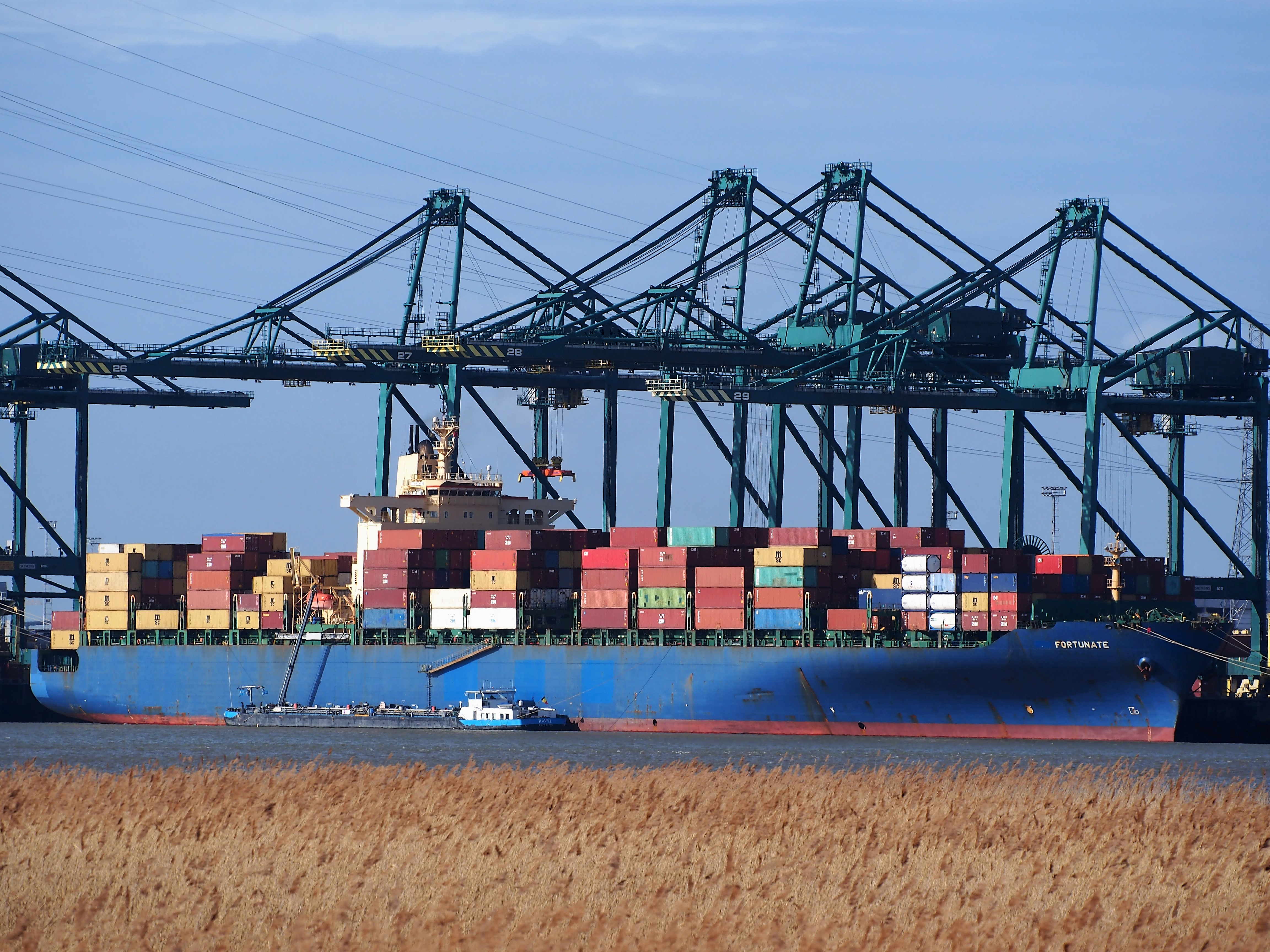 Photographed at Port of Antwerp, Belgium.